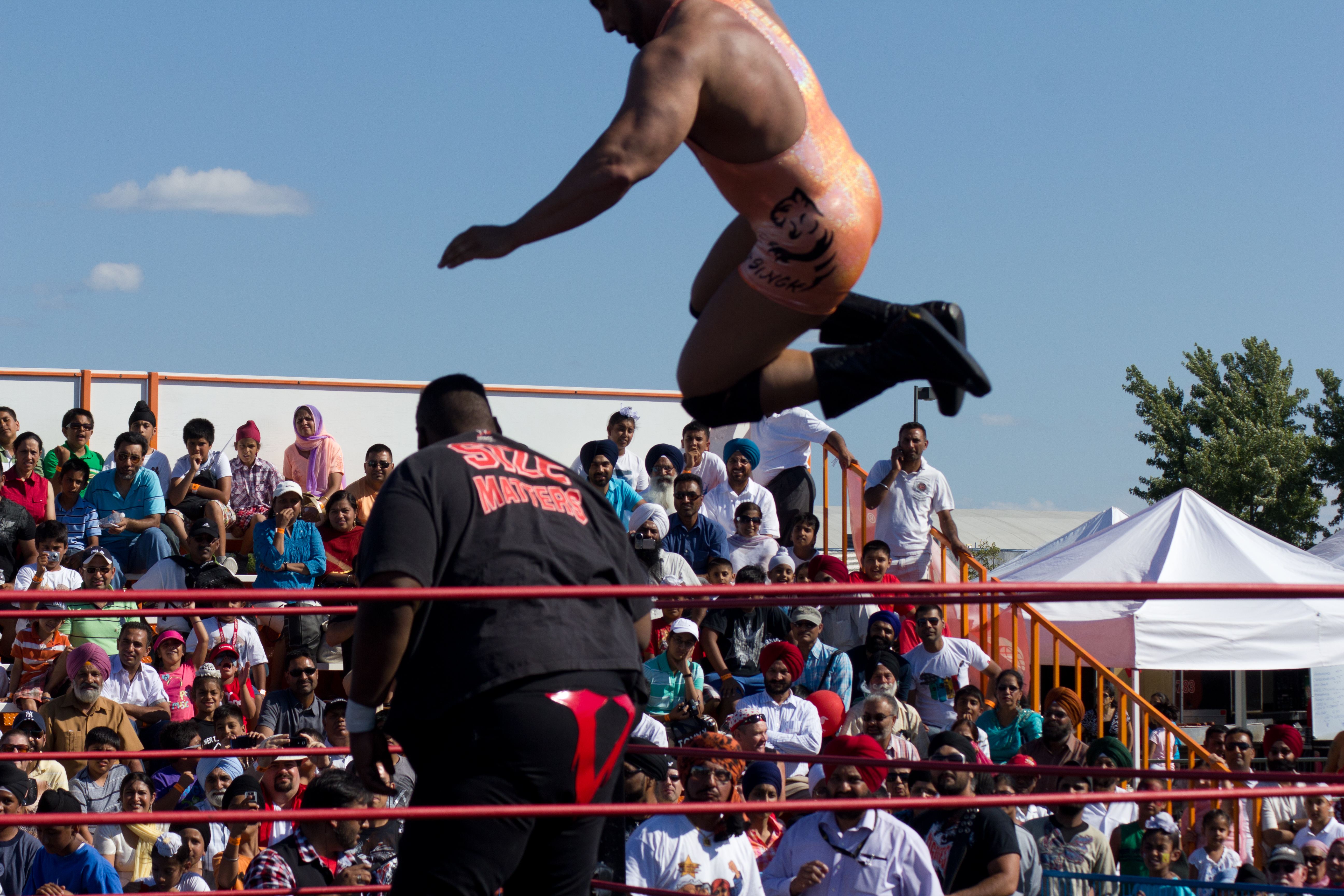 Professional wrestler Tiger Ali Singh (in orange) executing a bulldog from the top rope on Viscera